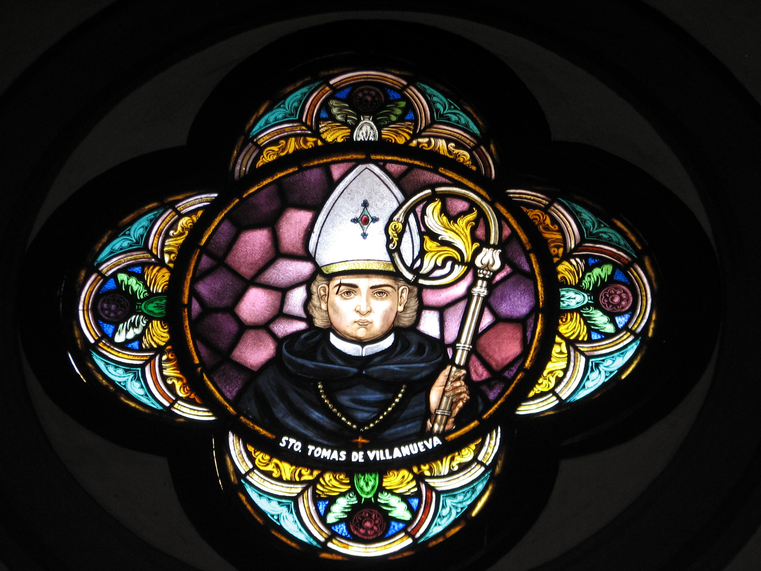 Cathedral Iquitos stained glass window Iquitos/Maynas/Loreto, Peru.